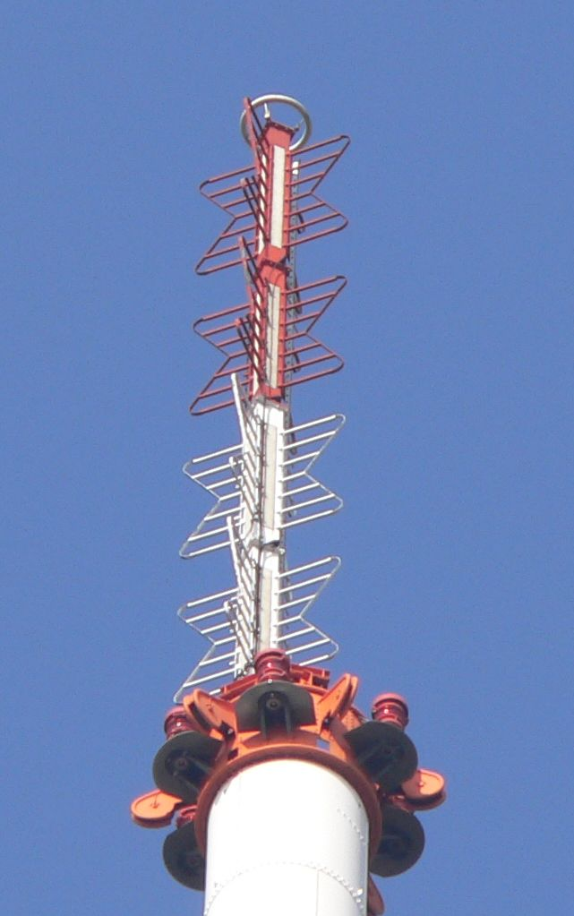 Superturnstile antenna on the Muehlacker television transmitter, Germany. Also called a "batwing antenna", this is a common type of television transmitting antenna. Opposing pairs of "wings" function as a dipole antenna, with each pair of crossed dipoles fed 90° out of phase to create an omnidirectional radiation pattern. Each radiator unit consisting of two pairs of batwings is called a "bay". The vertical collinear stack of batwing "bays" increases the gain of the antenna, concentrating the radiation in the horizontal direction so little of the power is radiated into the sky or down into the ground and wasted. The advantage of the "batwing" design is that it has a wide bandwidth so one antenna design can cover a large part of the VHF television band, and can be used to transmit multiple channels if desired.